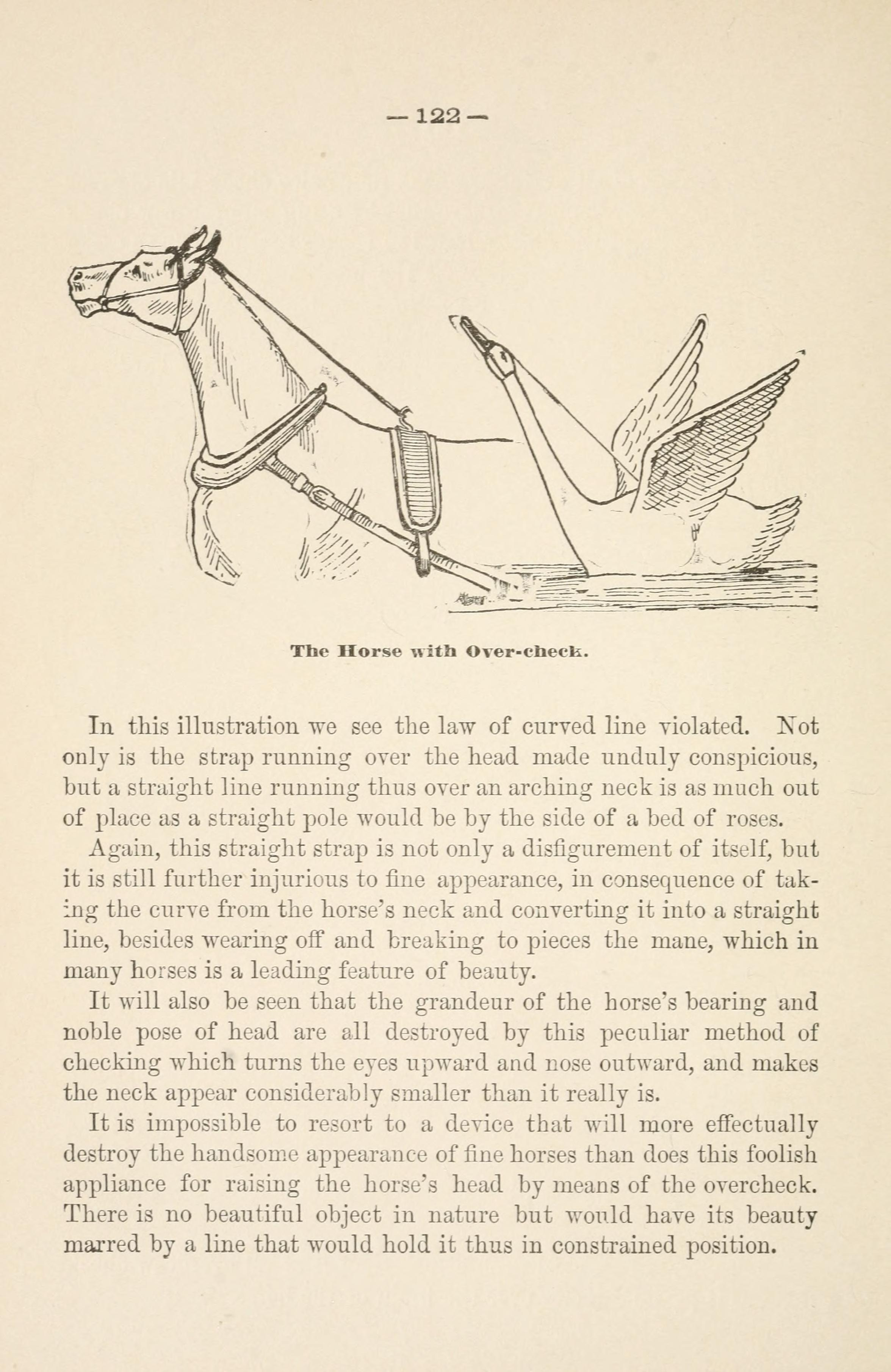 Gleason's horse book : the only authorized work by America's king of horse tamers comprising history, breeding, training, breaking, buying, feeding, grooming, shoeing, doctoring, telling age, and general care of the horse /